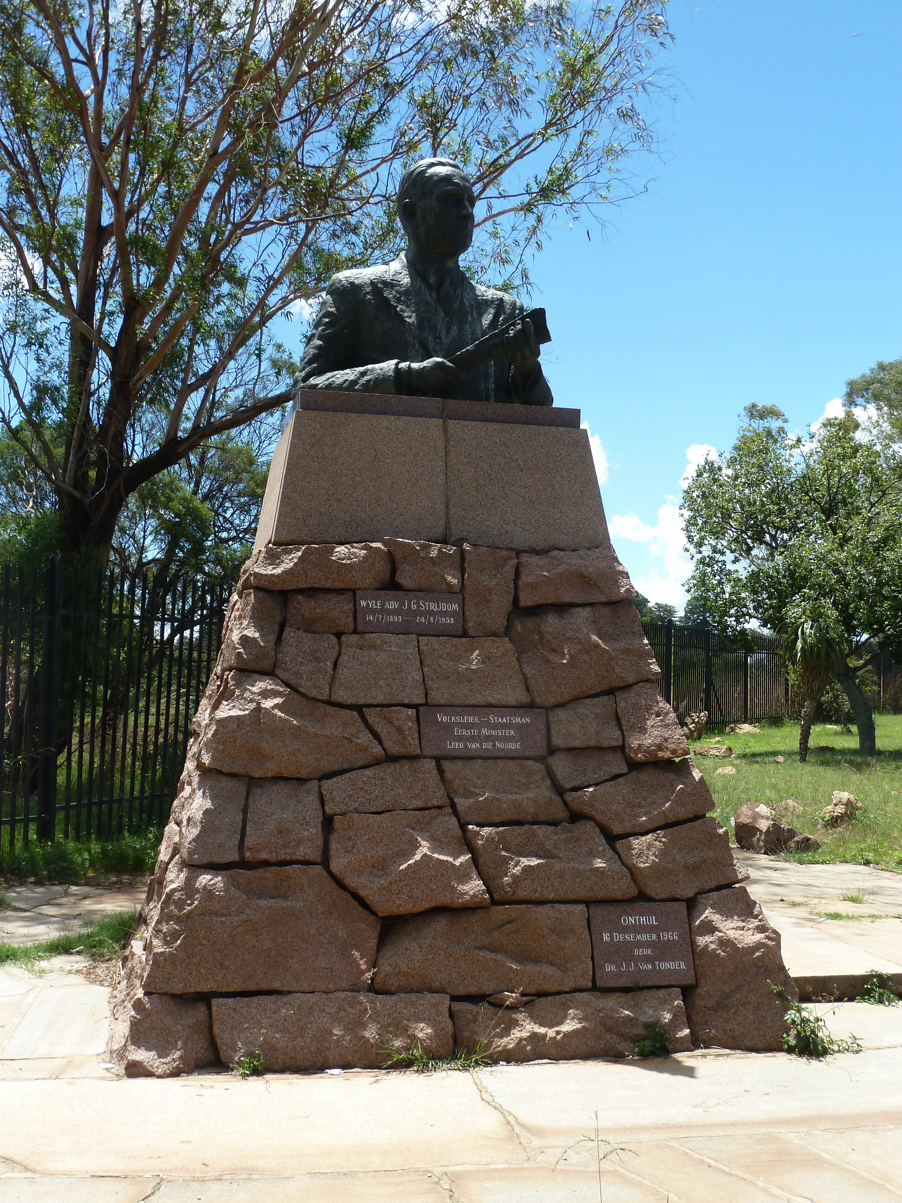 Bust of J.G. Strijdom beside Begin St., Krugersdorp